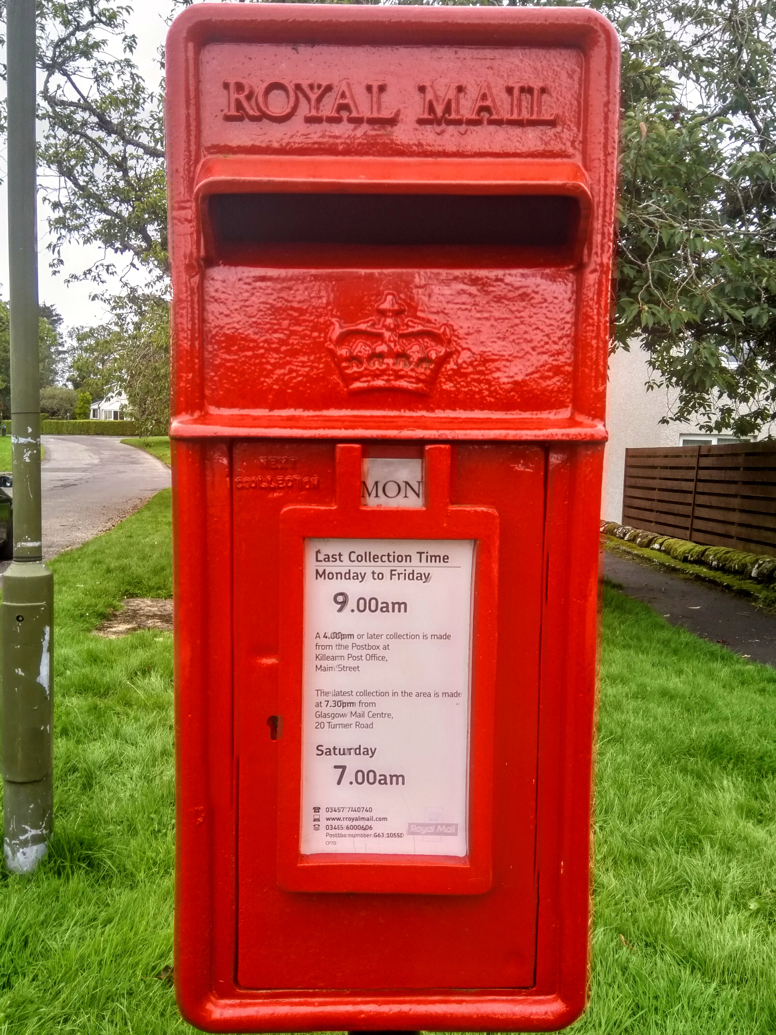 An example of a post-1954 pattern Royal Mail lamp post box of the type used in Scotland, showing the Crown of Scotland.